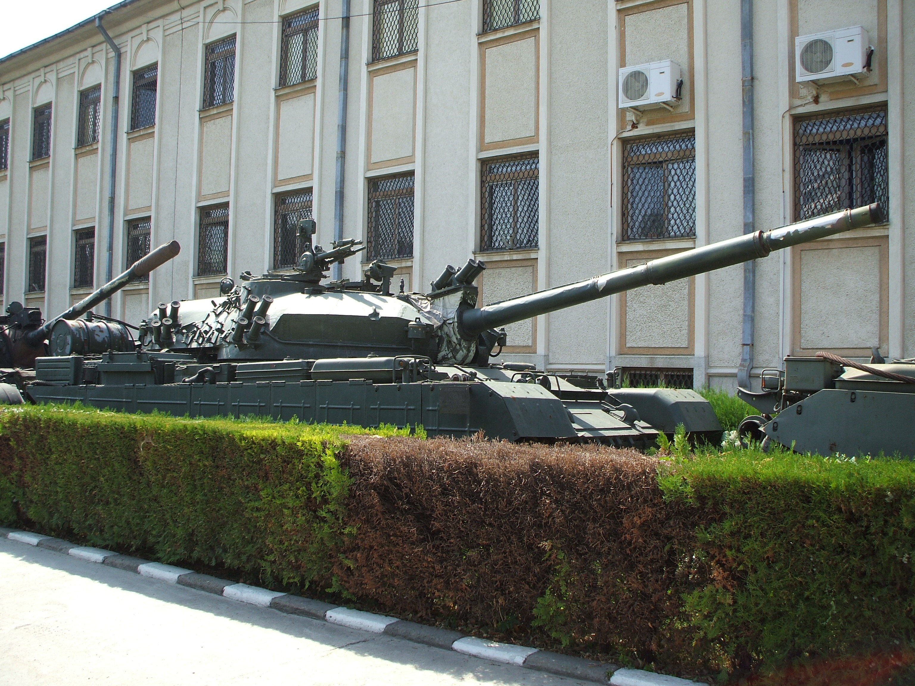 A TR-85M1A tank on display at "King Ferdinand" National Military Museum in Bucharest. Based on the TR-800 tank.